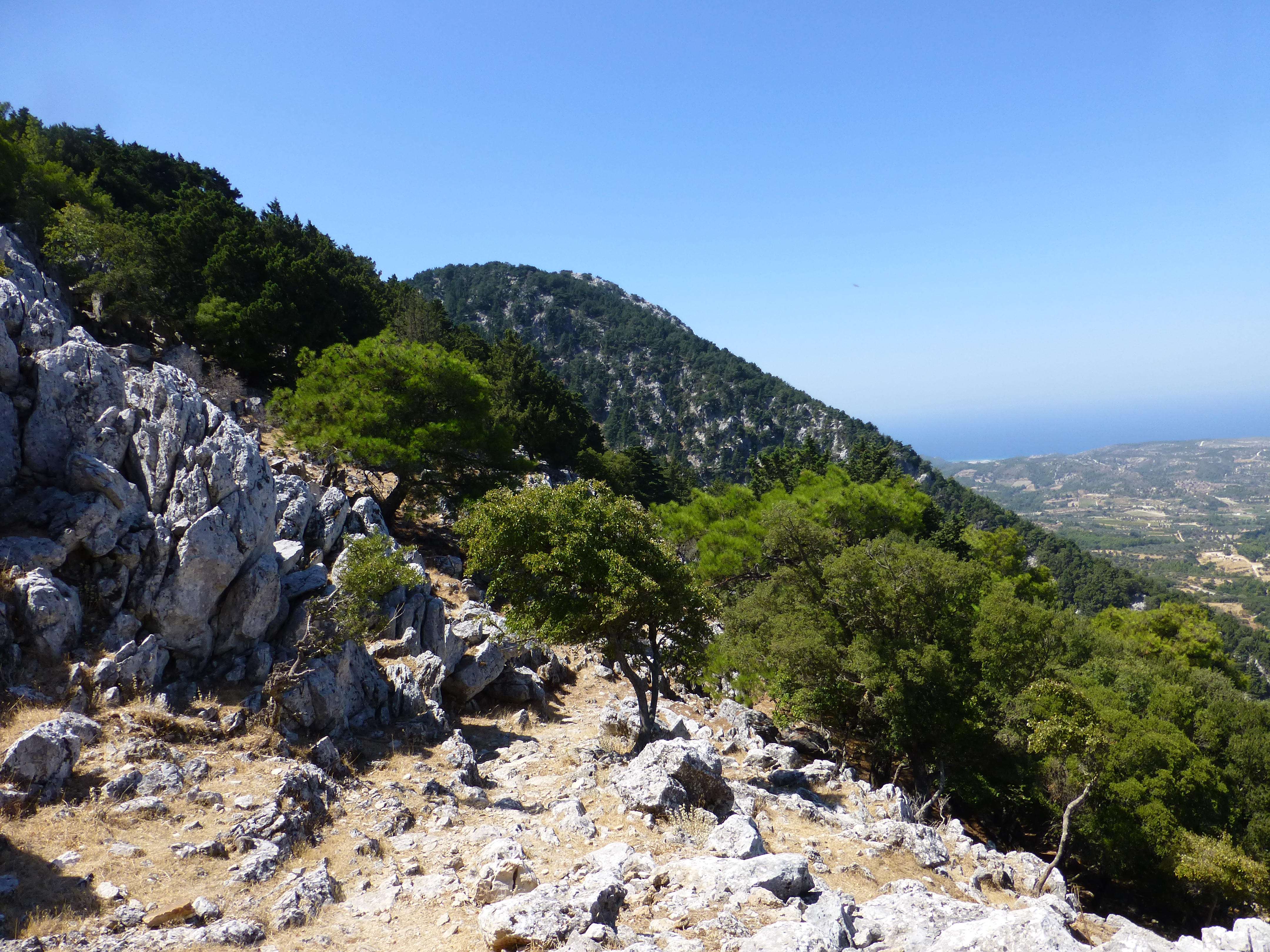 Profitis Ilias. Rodos, Greece. Tectonic limestone